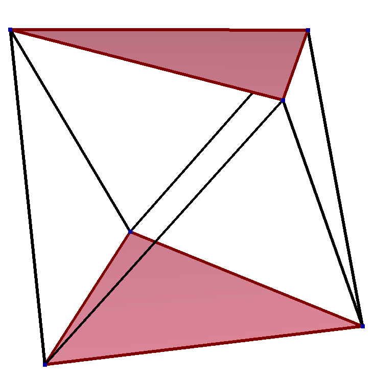 regular skew polygon